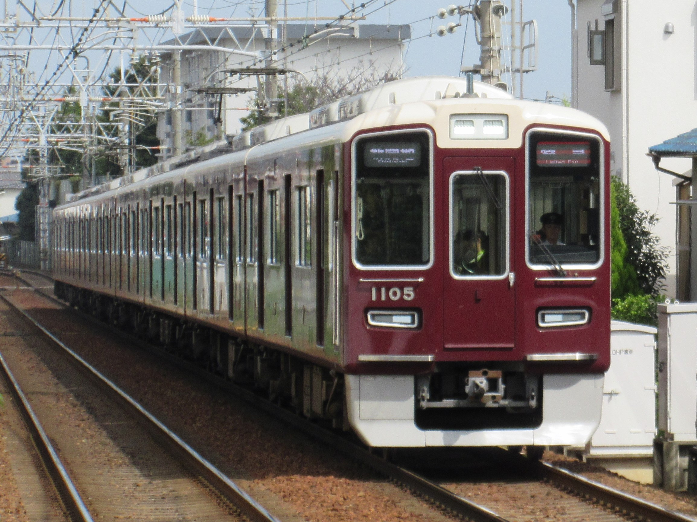 Hankyu 1000 series EMU set 1005 approaching Okamoto Station